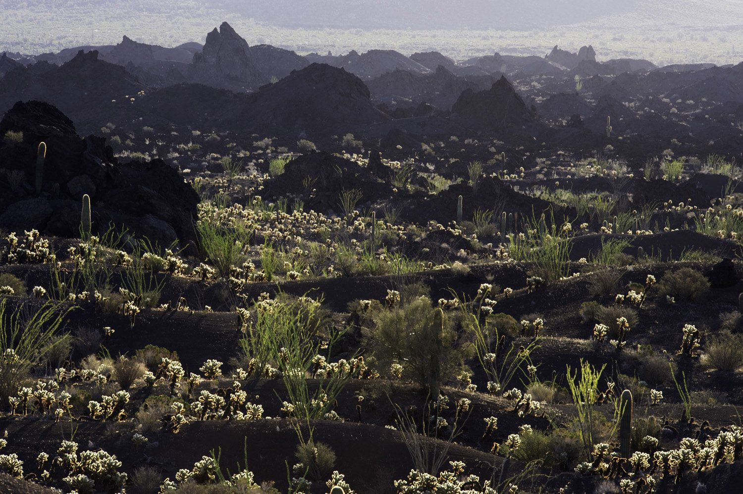 Cylindropuntia bigelovii — Pinacate Cholla. At Tecolote Camp, El Pinacate y Gran Desierto de Altar Biosphere Reserve — in Sonora.